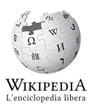 Wikipedia logo 2.0